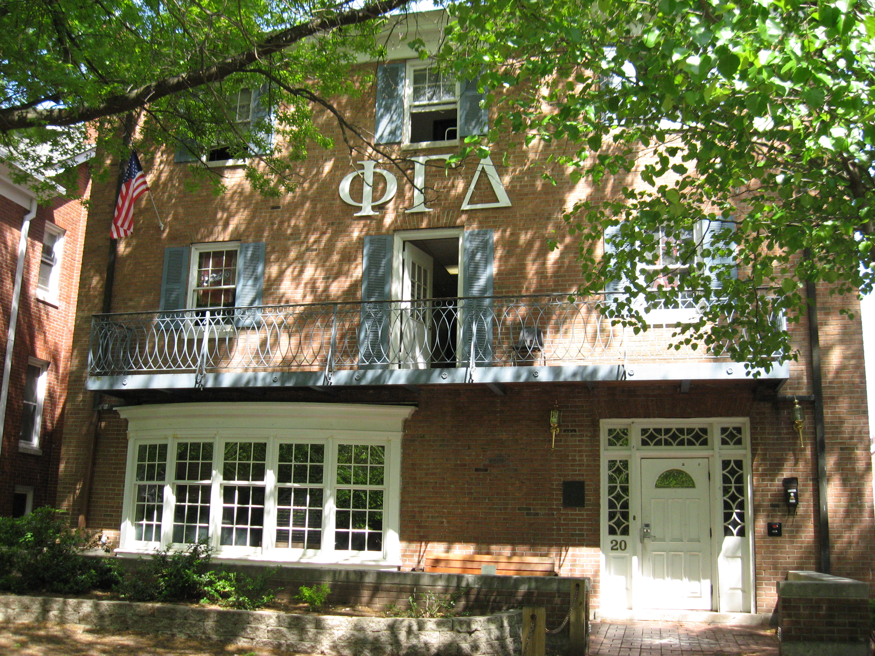 Phi Gamma Delta Fraternity House at Ohio University(Athens, USA)